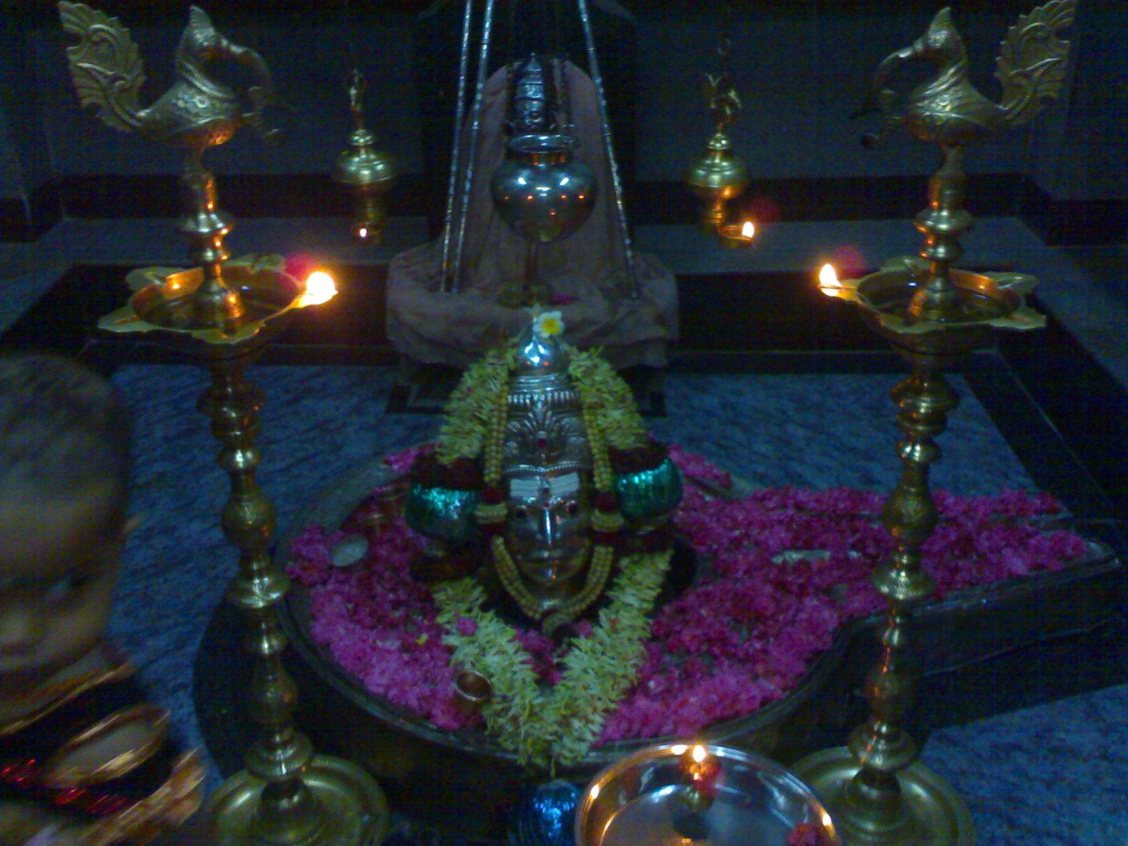 Kudalasangama, North Karnataka Source and Author : Manjunath Doddamani, Gajendragad / Hubli, Karnataka(India)